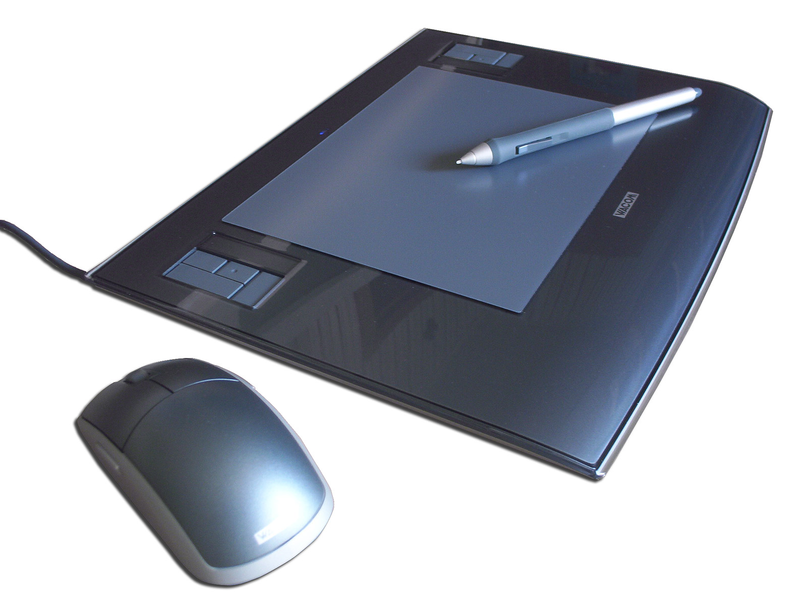 Wacom Pen Tablet with Pen and mouse, Intuos 3 A5